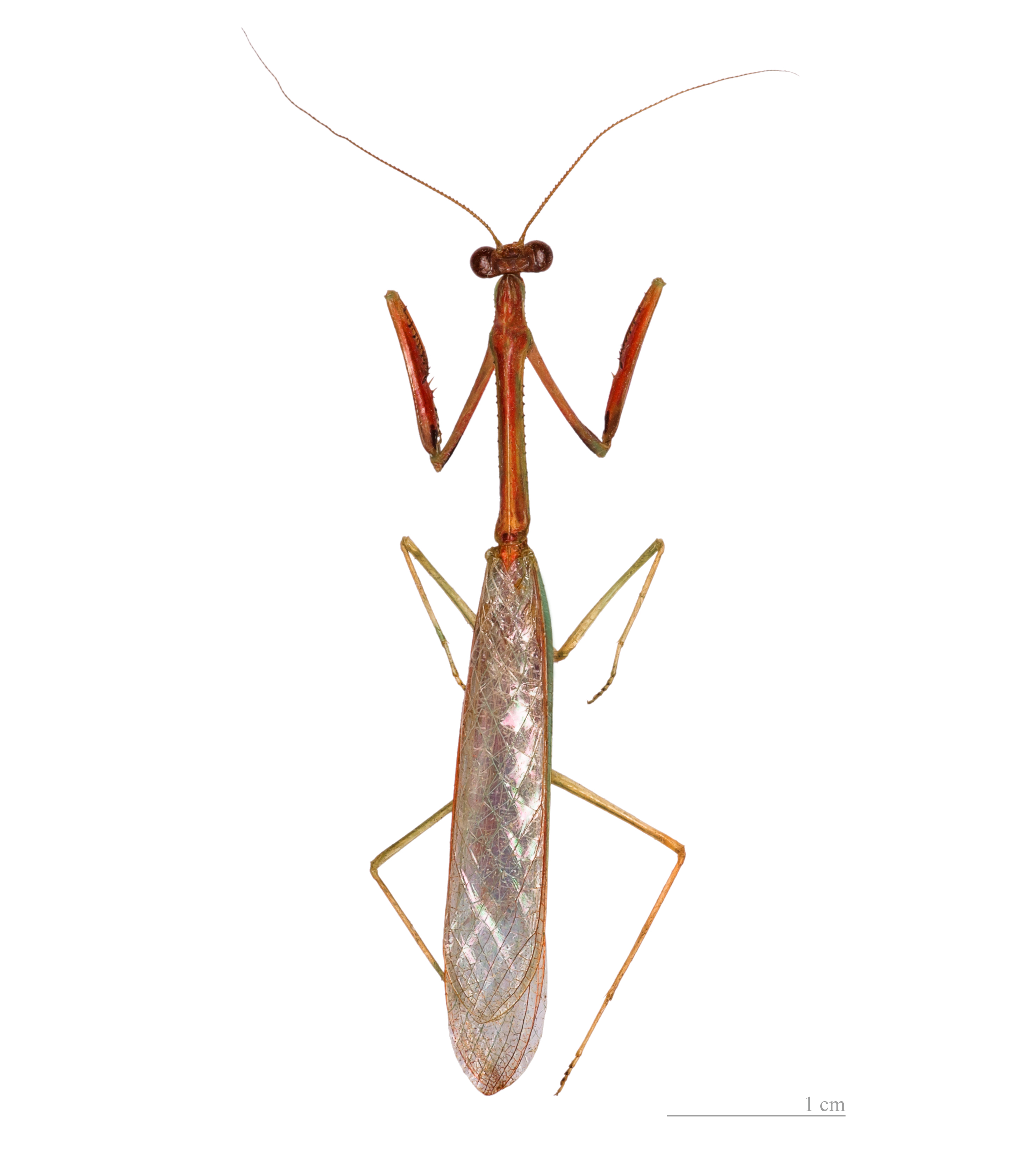 ♂ - Dorsal side Locality : Montsinéry, Risquetout track, crossing with Leodate jump, French Guiana.